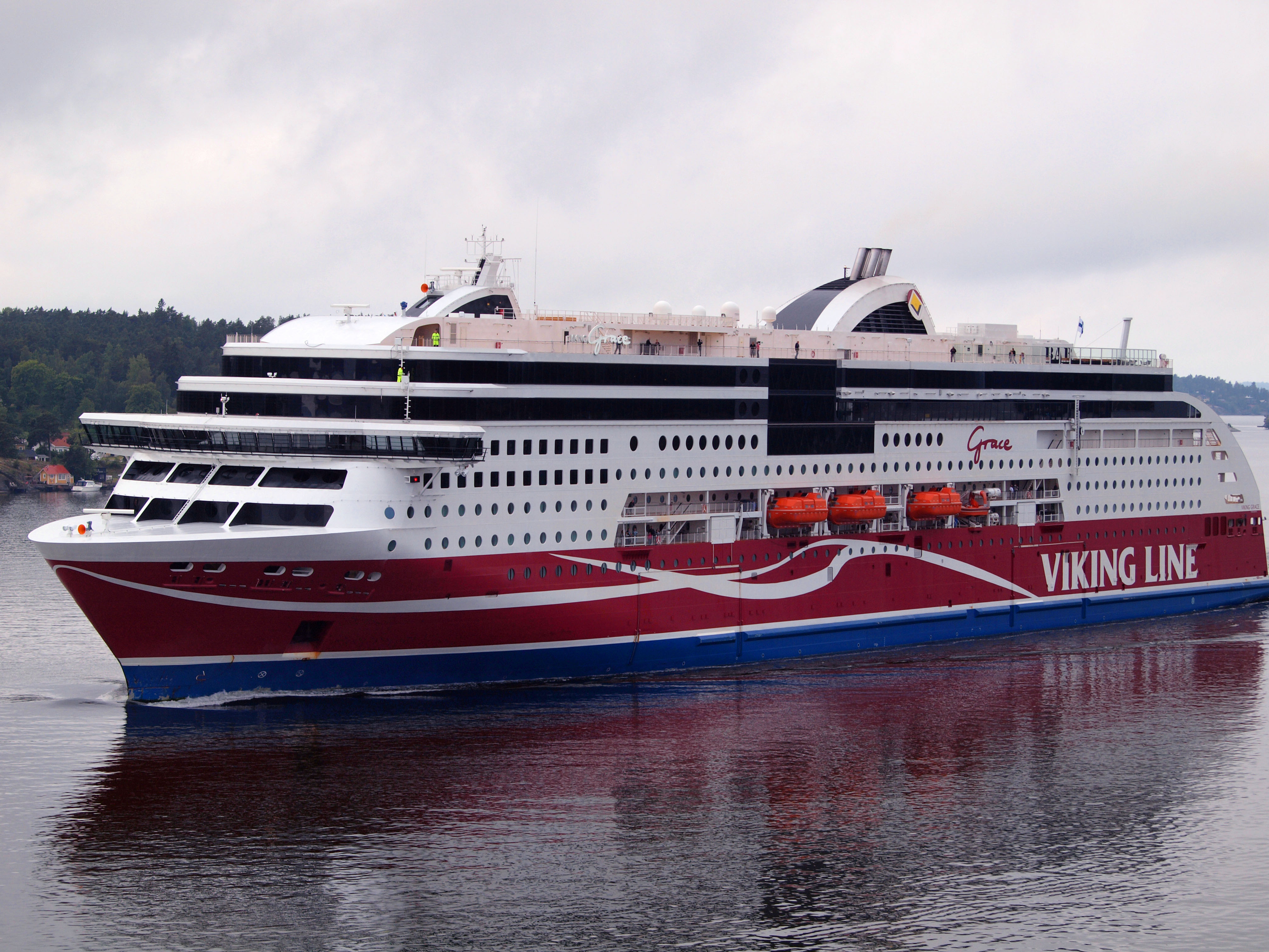 Viking Grace near Stockholm harbour, Sweden, as seen from either Viking Gabriella or Viking Mariella (I don't even remember which one, the ships alternate between each other so frequently on the route).